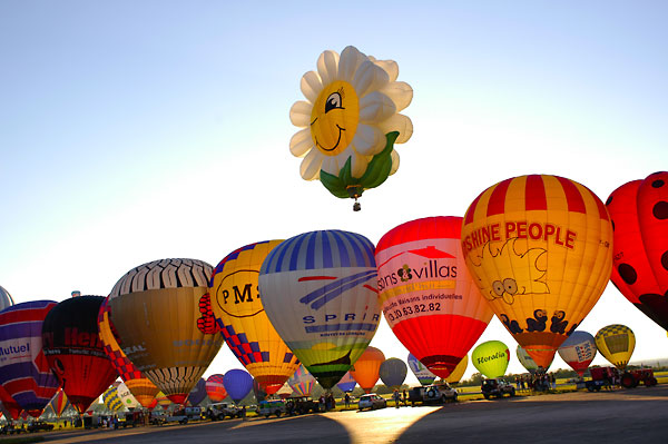 Mondial Air Ballons 2007 festival in Chambley/France